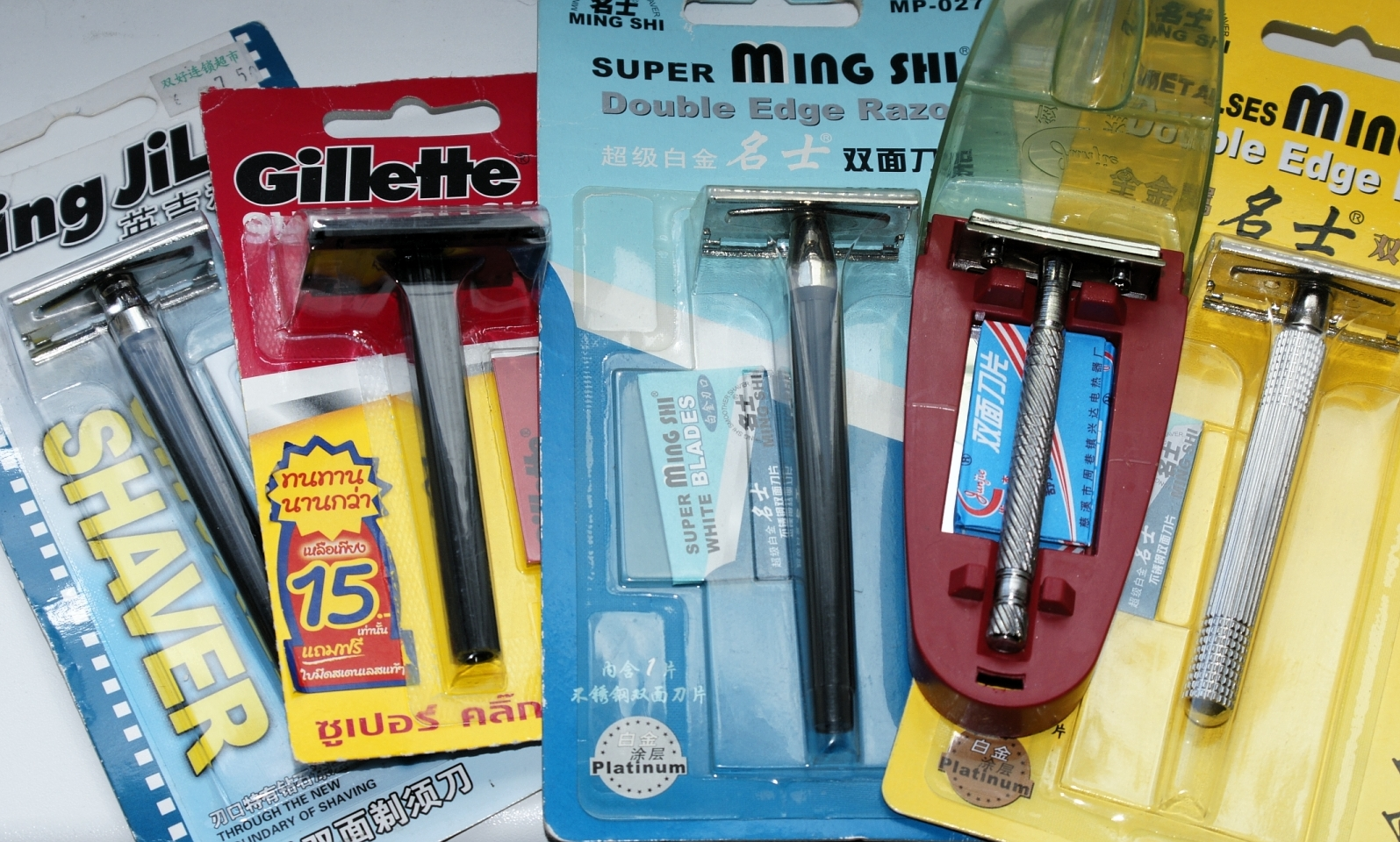 Selection of low-cost Asian double-edge safety razors.